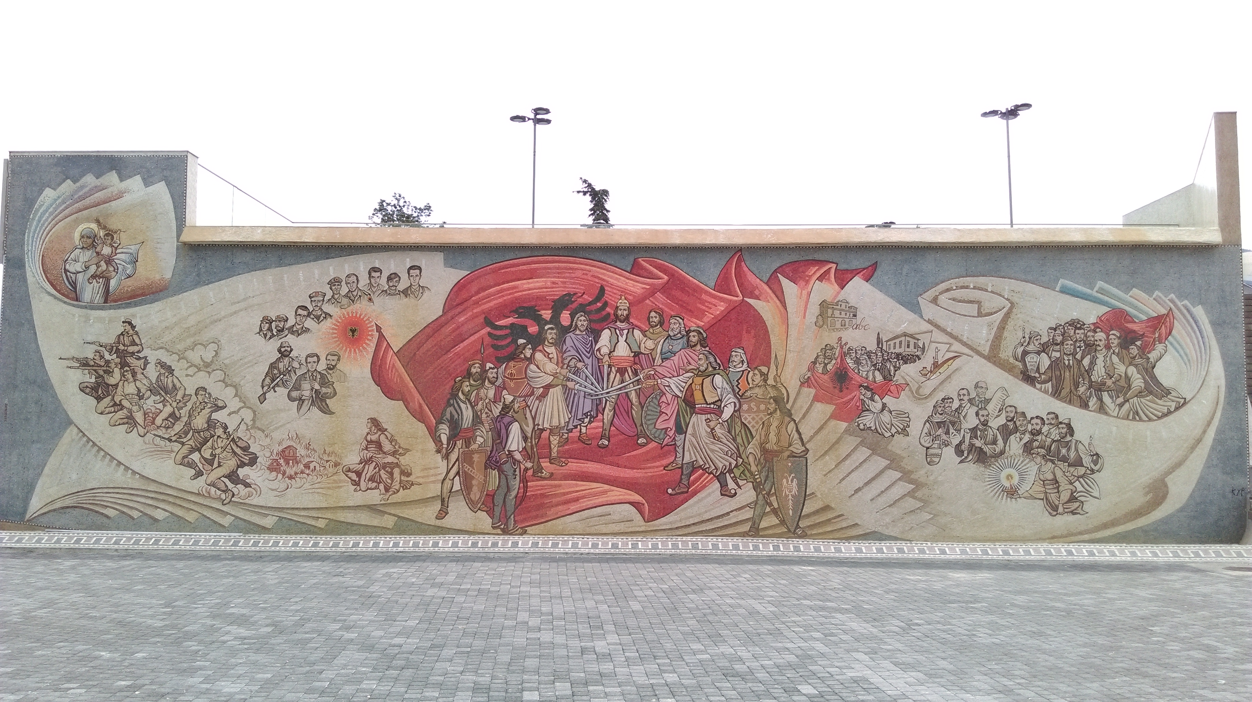 Skanderbeg Square